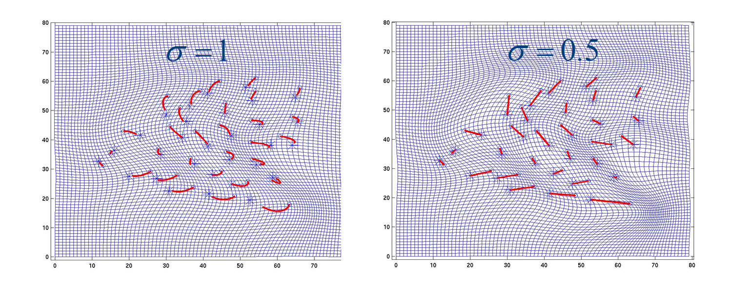 Showing LDDMM landmark matching with two different kernel widths